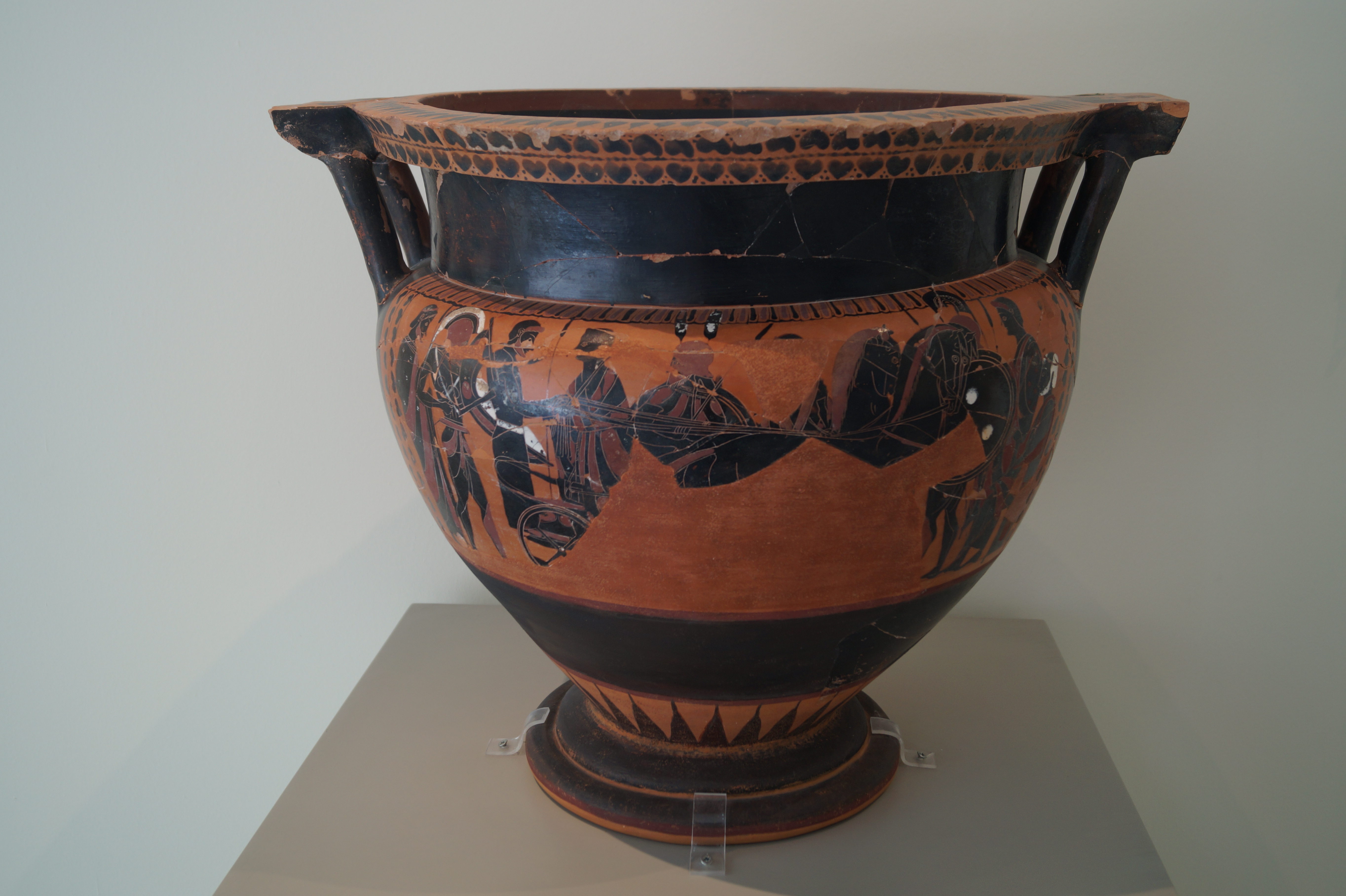 Kavala, Makedonia, Greece: Archaeological Museum of Kavala: Attic black figure crater from Phagres (530-520 BC)